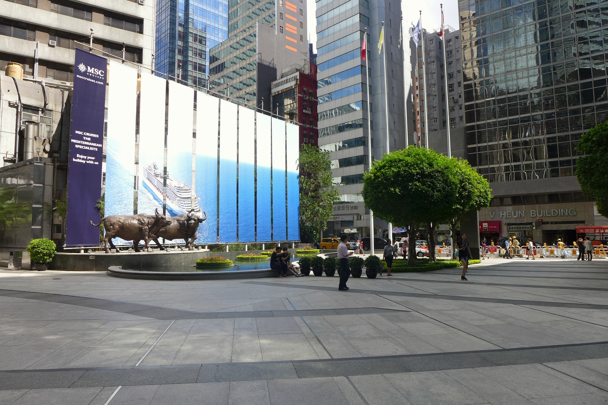 The Center Plaza